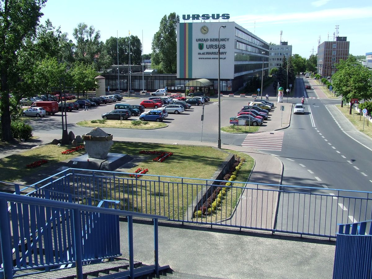 Warsaw Ursus townhall (district of Warsaw, Poland), Square of June 1976